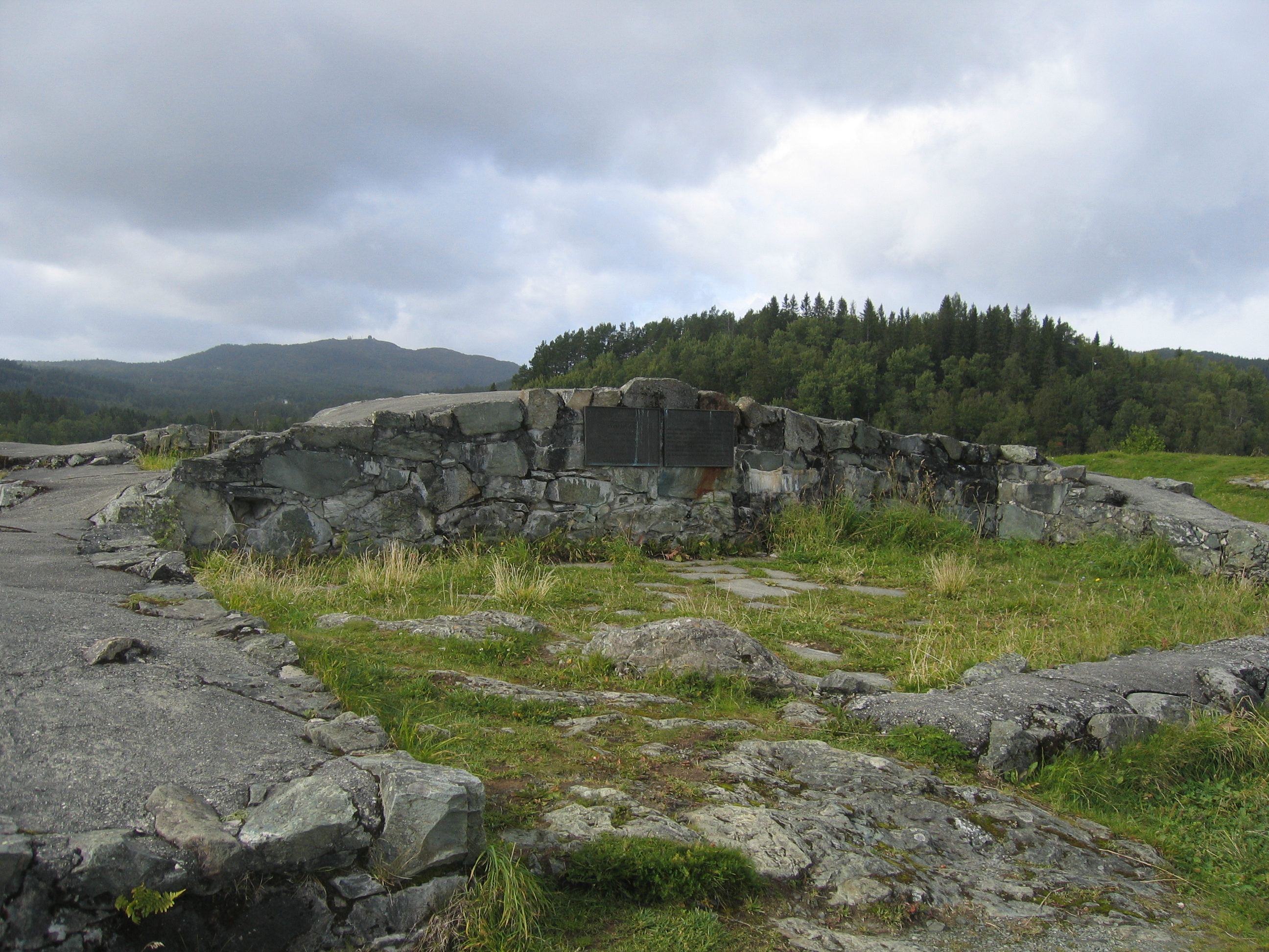 Stone foundation at Sverresborg, Trondheim, Norway.